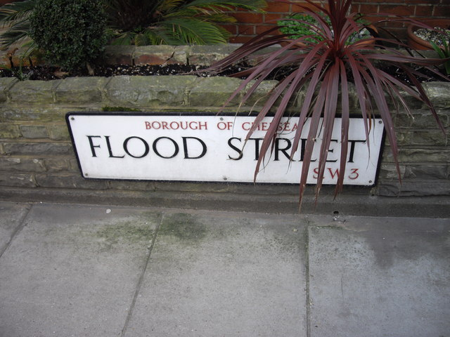 Street Sign 'Flood Street' Street sign showing 'Borough of Chelsea' newer signs in this area are titled 'Royal Borough of Kensington and Chelsea' since they are now merged